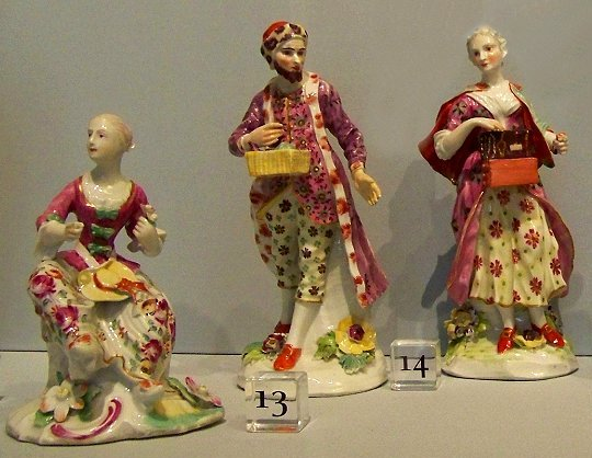 Left to right: Seated Girl (~1758, Derby Manufactory, England) Pair of Peddlers (~1758, Derby Manufactory, England) In the Detroit Institute of Arts